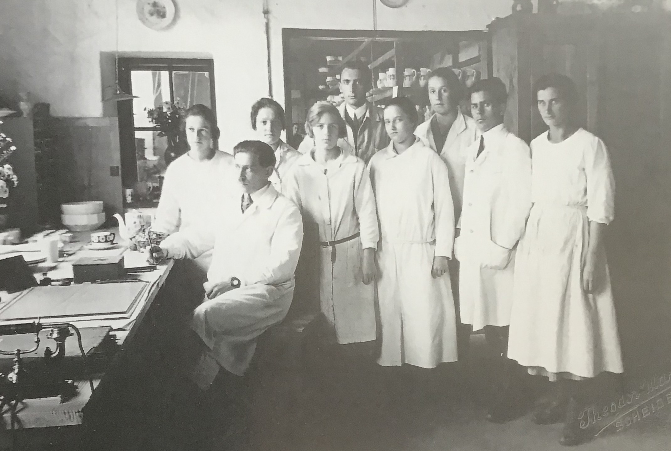 Tonindustrie Scheibbs Team